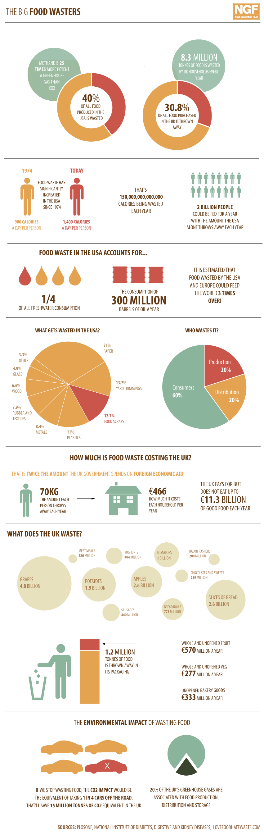 It is estimated that food wasted by the US and Europe could feed the world three times over. Food waste contributes to excess consumption of freshwater and fossil fuels which, along with methane and CO2 emissions from decomposing food, impacts global climate change. Every tonne of food waste prevented has the potential to save 4.2 tonnes of CO2 equivalent. If we all stop wasting food that could have been eaten, the CO2 impact would be the equivalent of taking one in four cars off the road.